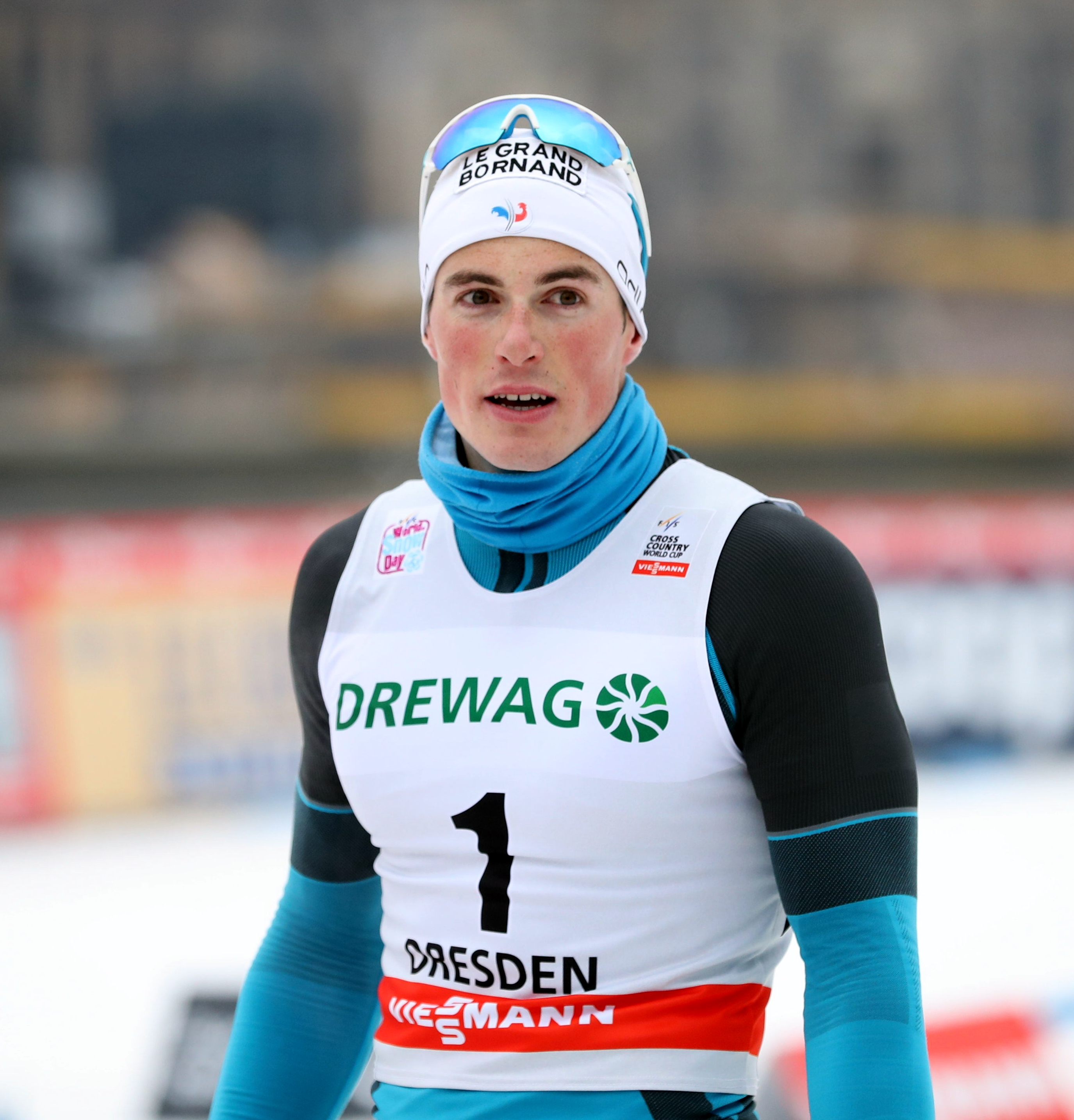 Mens Final at the FIS Cross-Country World Cup Dresden 2018: Lucas Chanavat